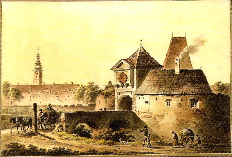 Kremsertor, St. Pölten, around 1810